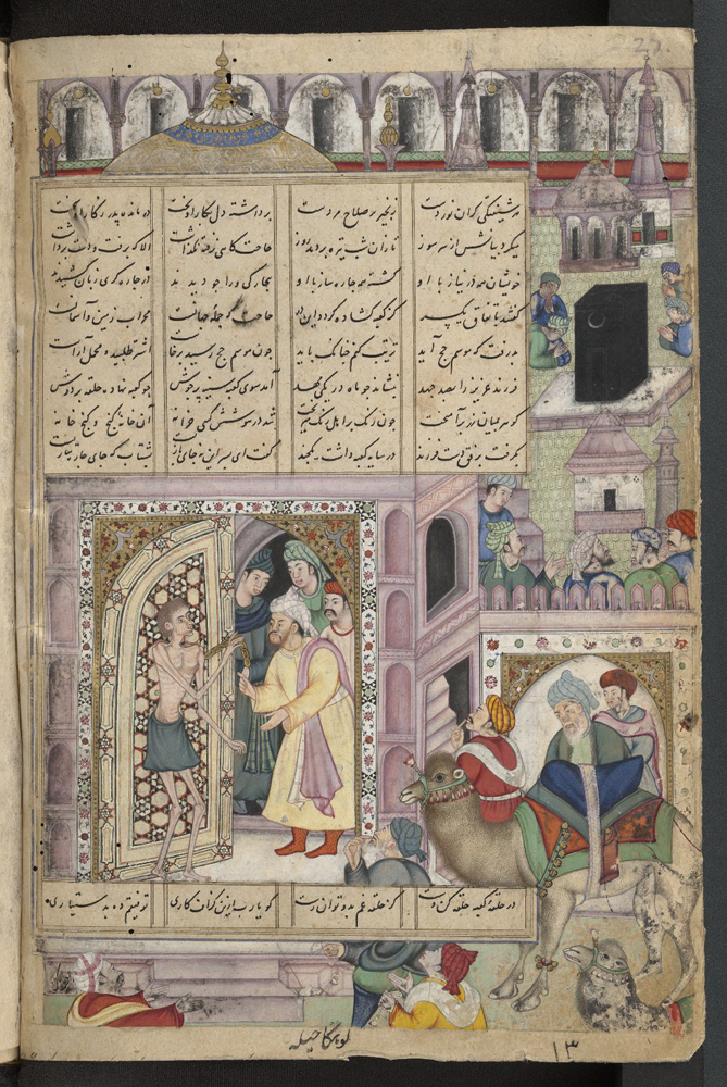 The father of Majnūn taking him to the Ka‛bah. Illustration of the story of Layla and Majnun, by Nizami. Persian text with painting in Mughal style. Book originally from India but acquired by the Bodleian Library in 1953. Shelfmark MS. Pers. d.102